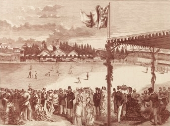 Intercolonial Cricket Match between Victoria and New South Wales, held at the Albert Cricket Ground, Sydney, December 1876, lithograph, wood engraving; sheet 51 x 68 cm